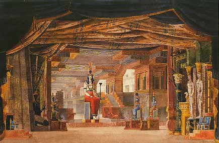 Set design for the opera Moïse et Pharaon, Paris, 1827. This comes from my collection and was scanned by me. Mrlopez2681 04:00, 2 January 2007 (UTC)